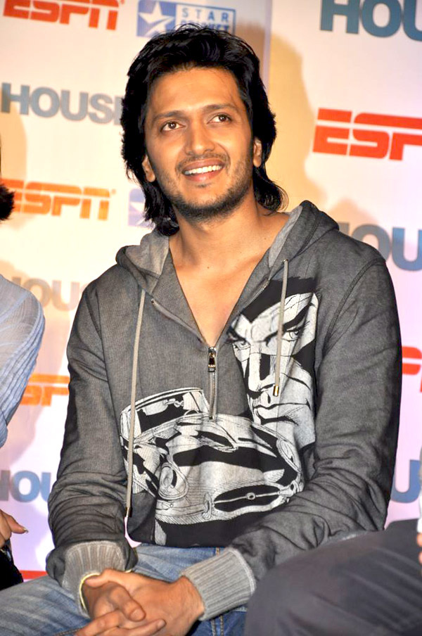 Ritesh Deshmukh at the Housefull-ICC T20 World Cup media meet.